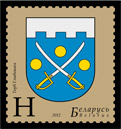 Stamp of Belarus